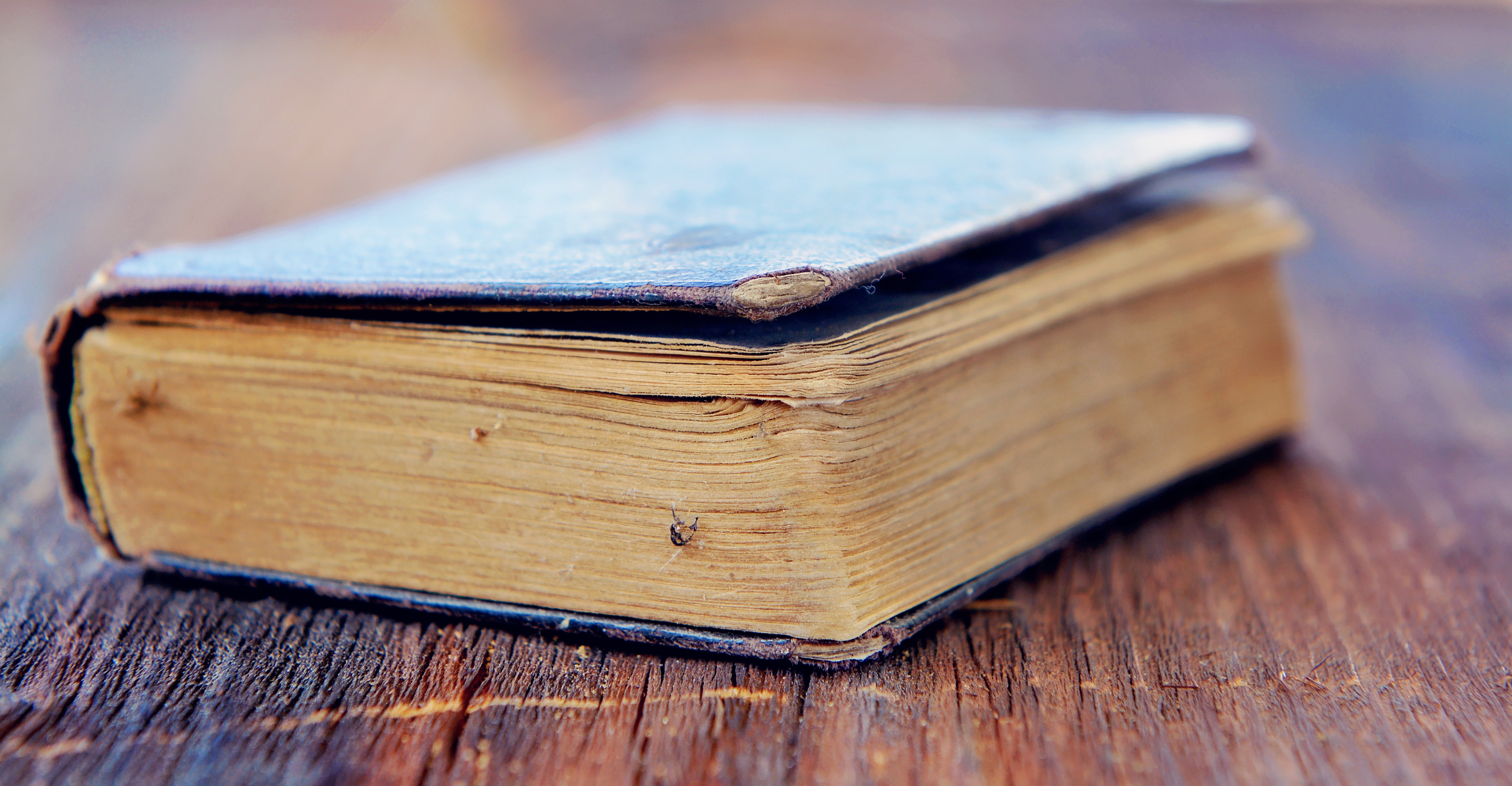 worned out book